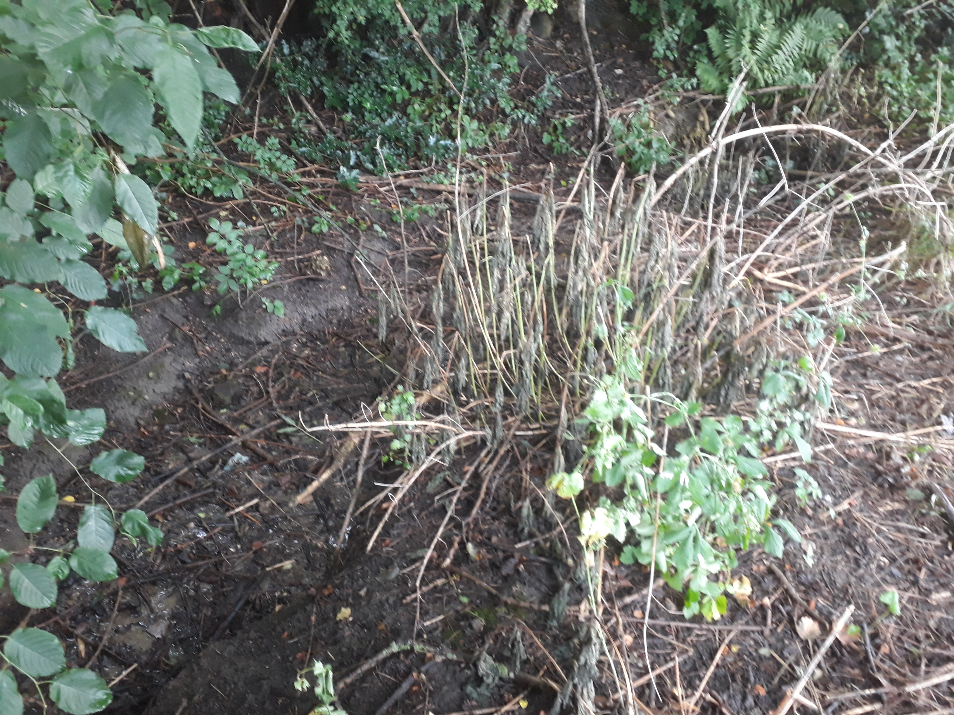 Source Fontinnes